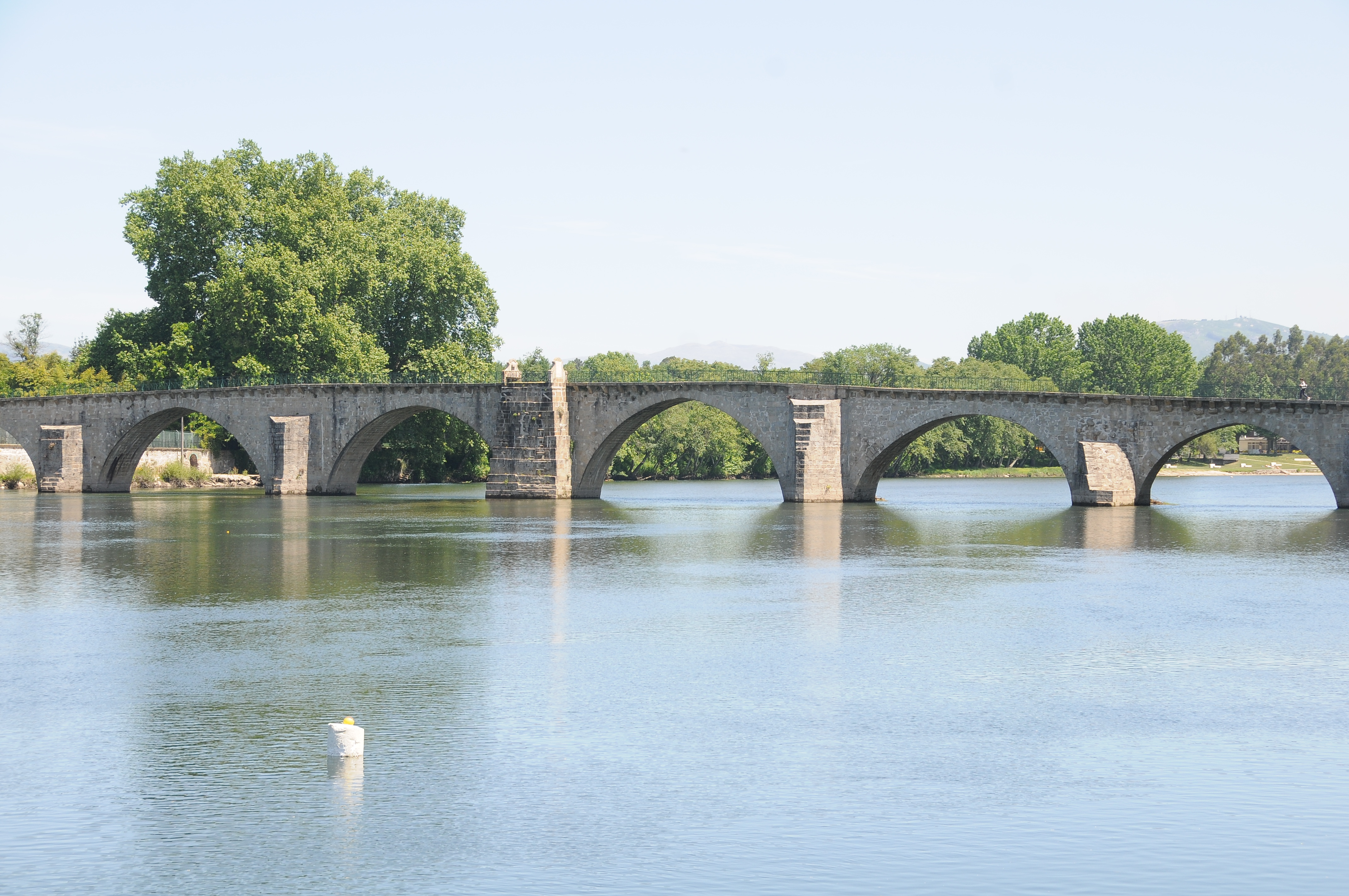 Prado Bridge, Braga, Portugal.